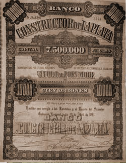 Bono del Banco Constructor de La Plata